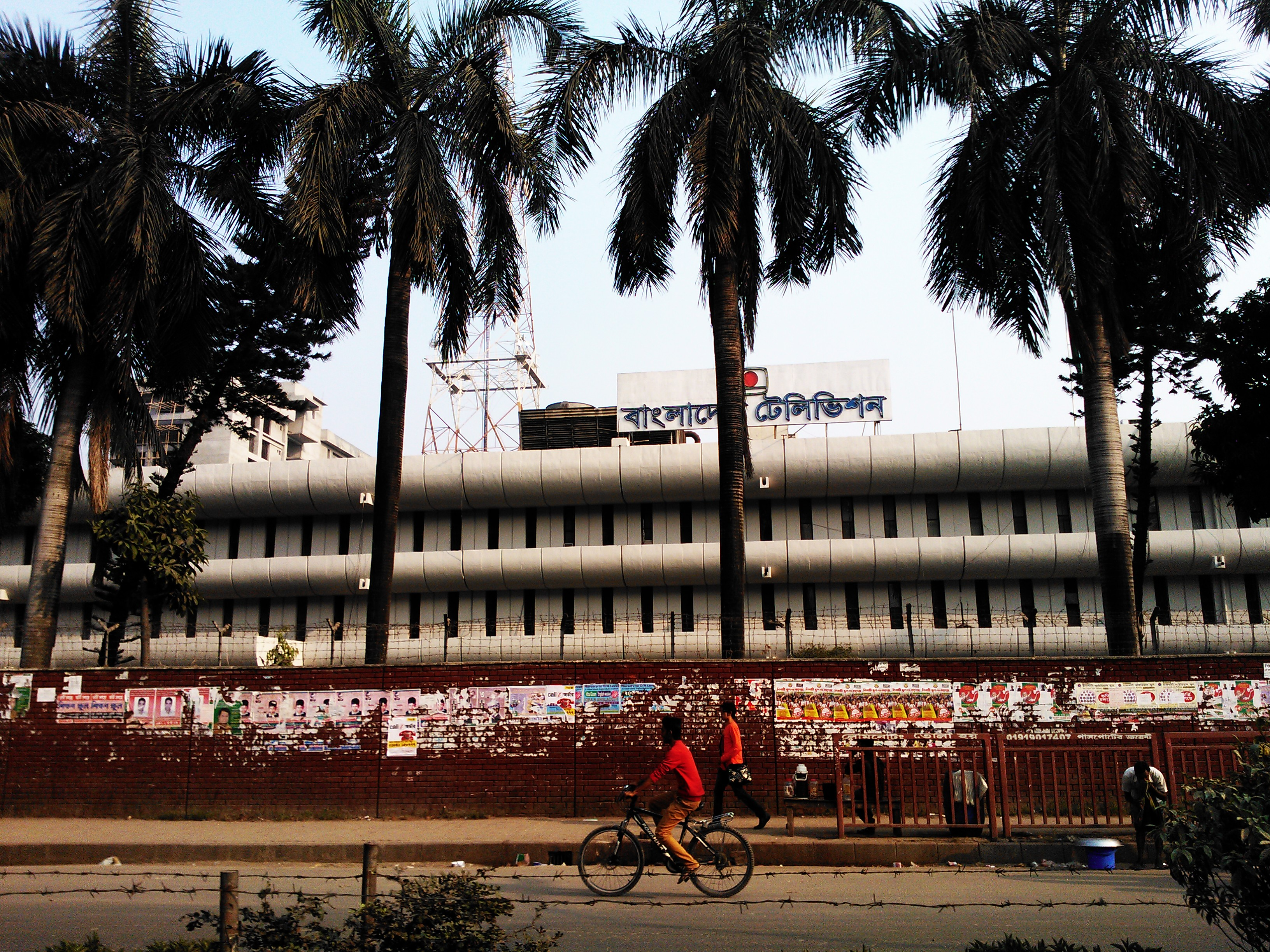 Bangladesh Television Bhaban at Rampura